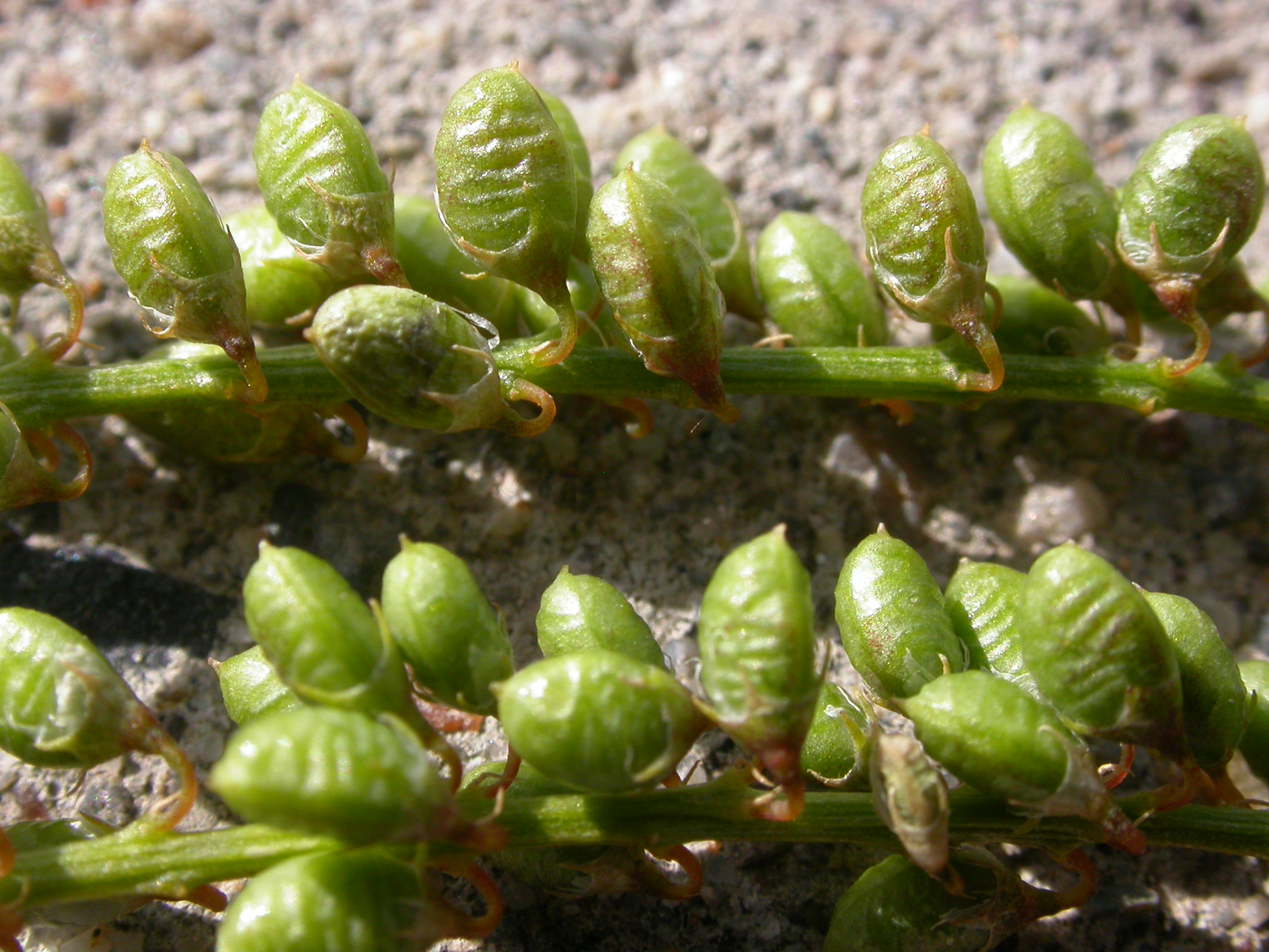 The pods are obscurely cross-corrugated.